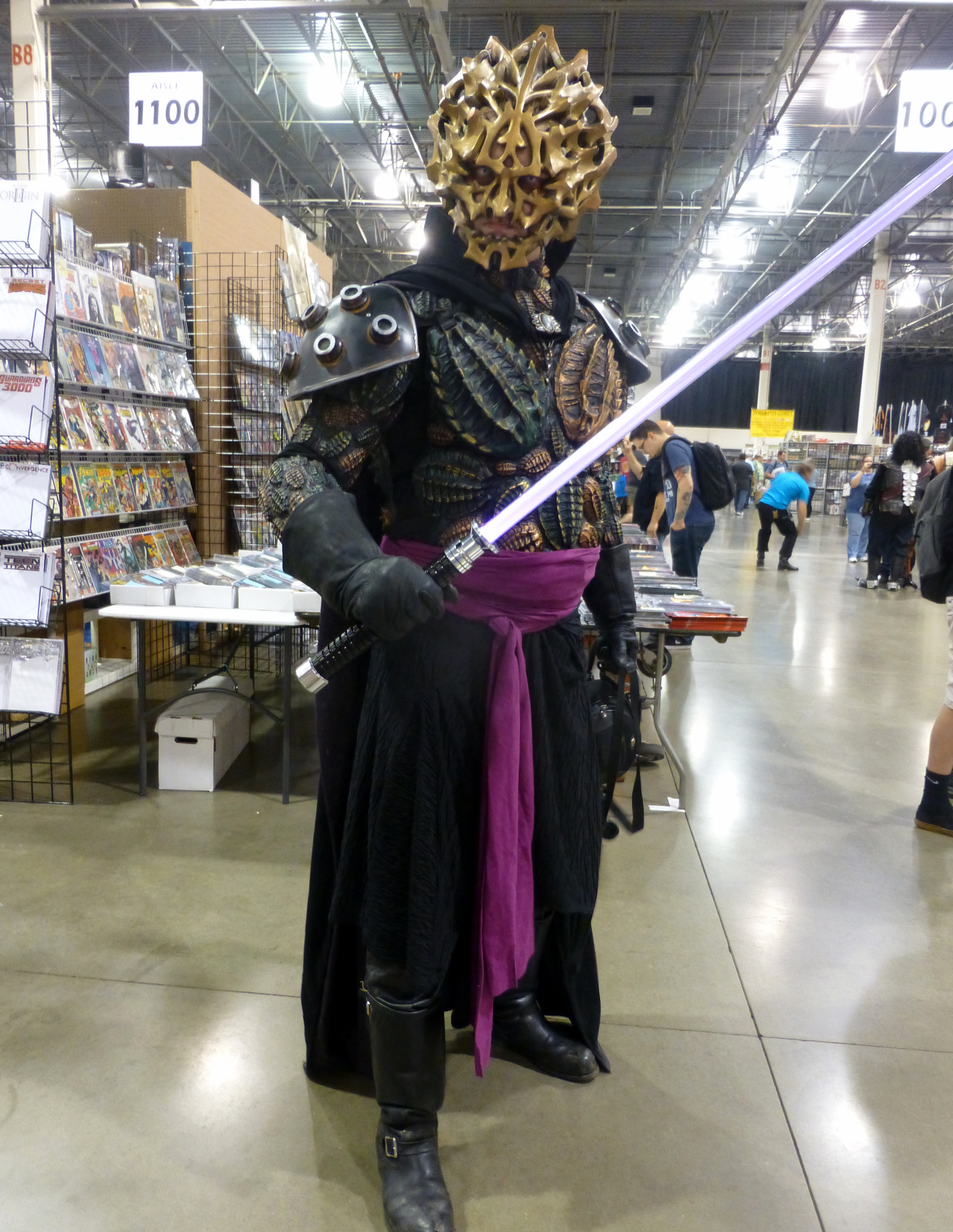 Darth Bane Cosplay at Motor City Comic Con 2015.